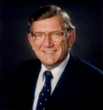 Portrait of Senator James Exon of Nebraska